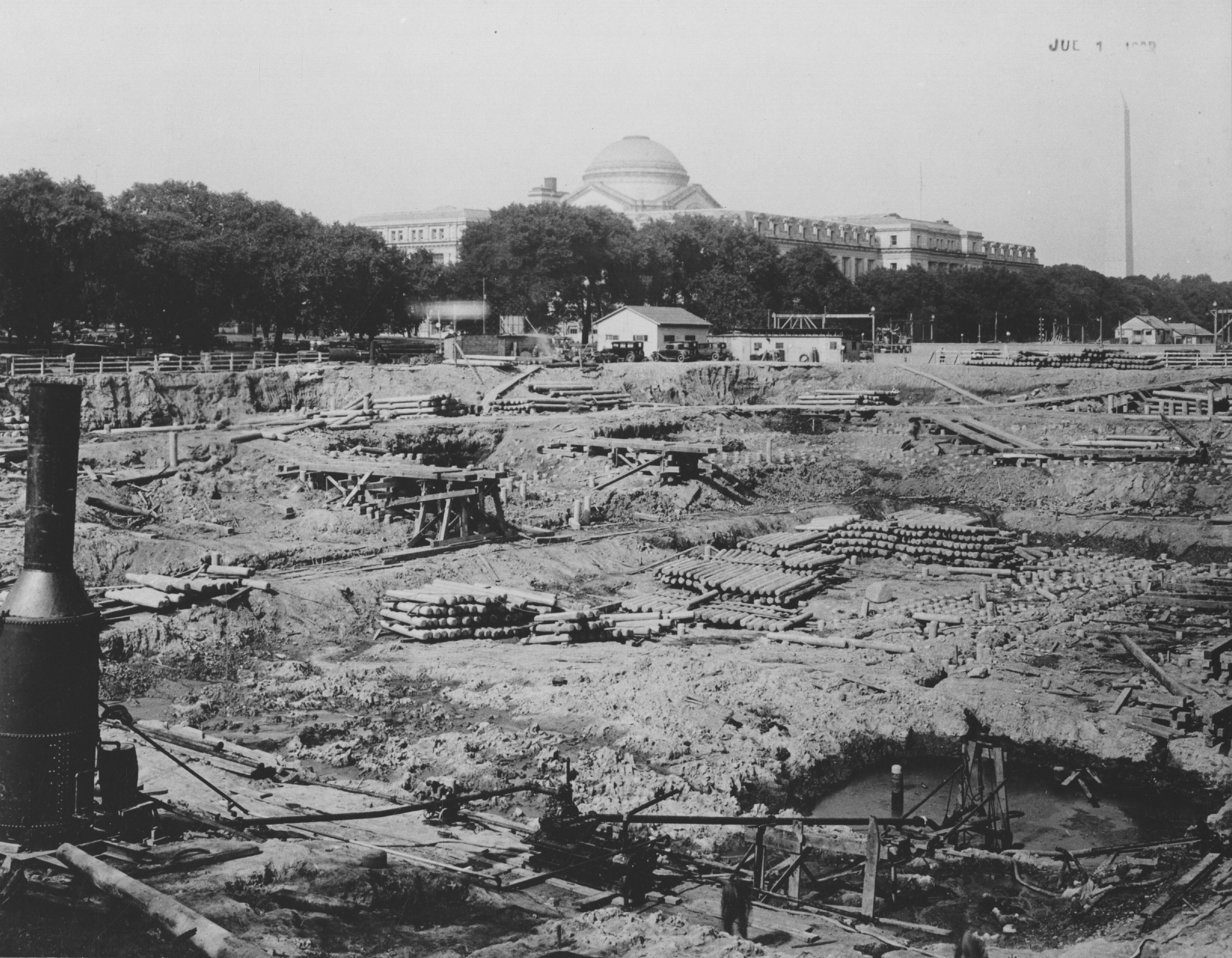 Creator(s): General Services Administration. National Archives and Records Service. Office of the National Archives. (9/19/1966 - 4/1/1985) Series: Construction of the National Archives Building, 1932 - 1942 Record Group 64: Records of the National Archives and Records Administration, 1789 - ca. 2007 Production Date: 1932 - 1942 Access Restriction(s): Unrestricted Use Restriction(s): Unrestricted Scope & Content: This photograph is part of the Cranford Contract for the site preparation of the National Archives Building. Contact(s): National Archives at College Park - Still Pictures (RDSS) National Archives at College Park 8601 Adelphi Road College Park, MD 20740-6001 Phone: 301-837-0561 Fax: 301-837-3621 National Archives Identifier: 26326577 Local Identifier: 64-NAC-44 Persistent URL